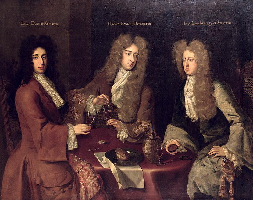 Evelyn Pierrepont, 1st Duke of Kingston-upon-Hull (c1655-1726); Charles Boyle, 2nd Earl of Burlington (1660-1704); and John Berkeley, 3rd Baron Berkeley of Stratton (1663-1697)